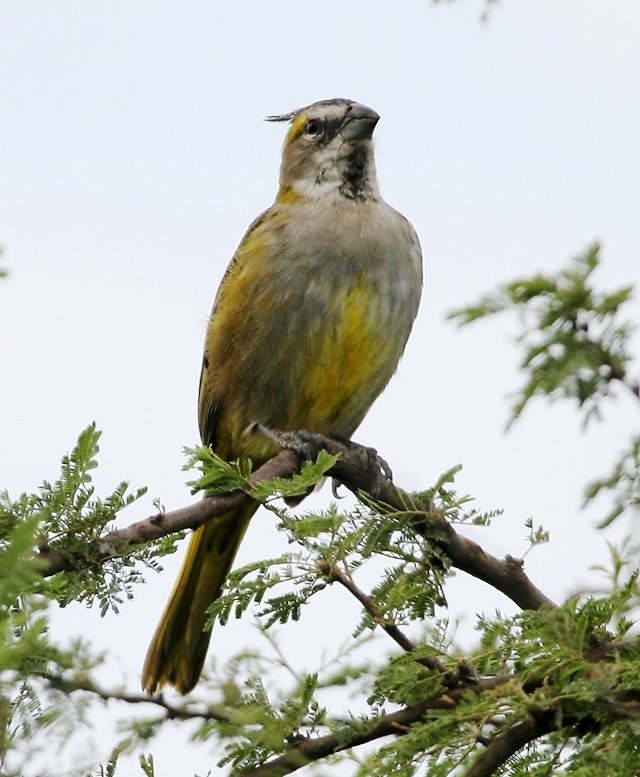 Yellow Cardinal (Gubernatrix cristata) at Ibera Marshes, Argentina.